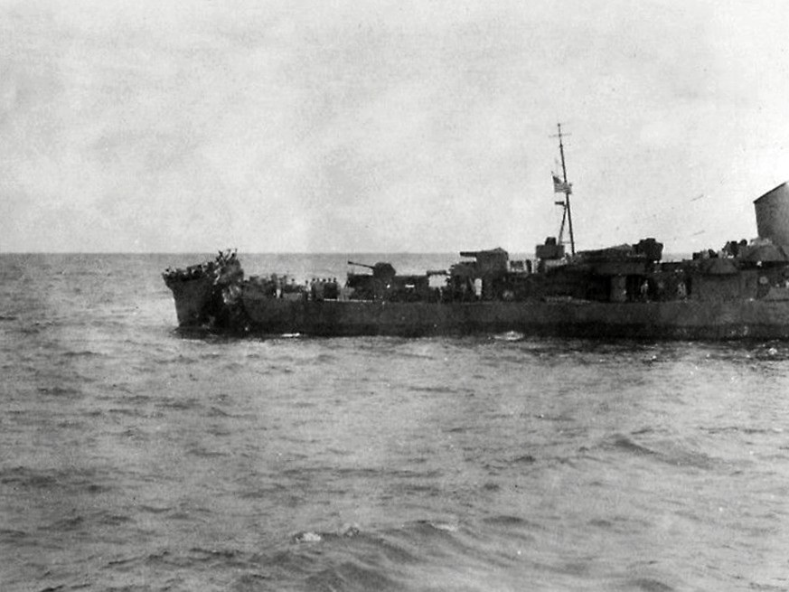 The U.S. Navy destroyer escort USS Roche (DE-197) hit a mine on 29 September 1945 while escorting the troop transport USS Florence Nightingale (AP-70) to Tokyo, Japan. The explosion twisted her stern and rudder, three crewmen died. Roche was towed by the tug ATR-35 to Tokyo Bay. On 18 October, a board of inspection and survey decided that Roche was beyond economical repair and recommended that she be cannibalized. Subsequently decommissioned, Roche's hulk was sunk off Yokosuka on 11 March 1946. The photo was taken from the destroyer USS Parker (DD-604).